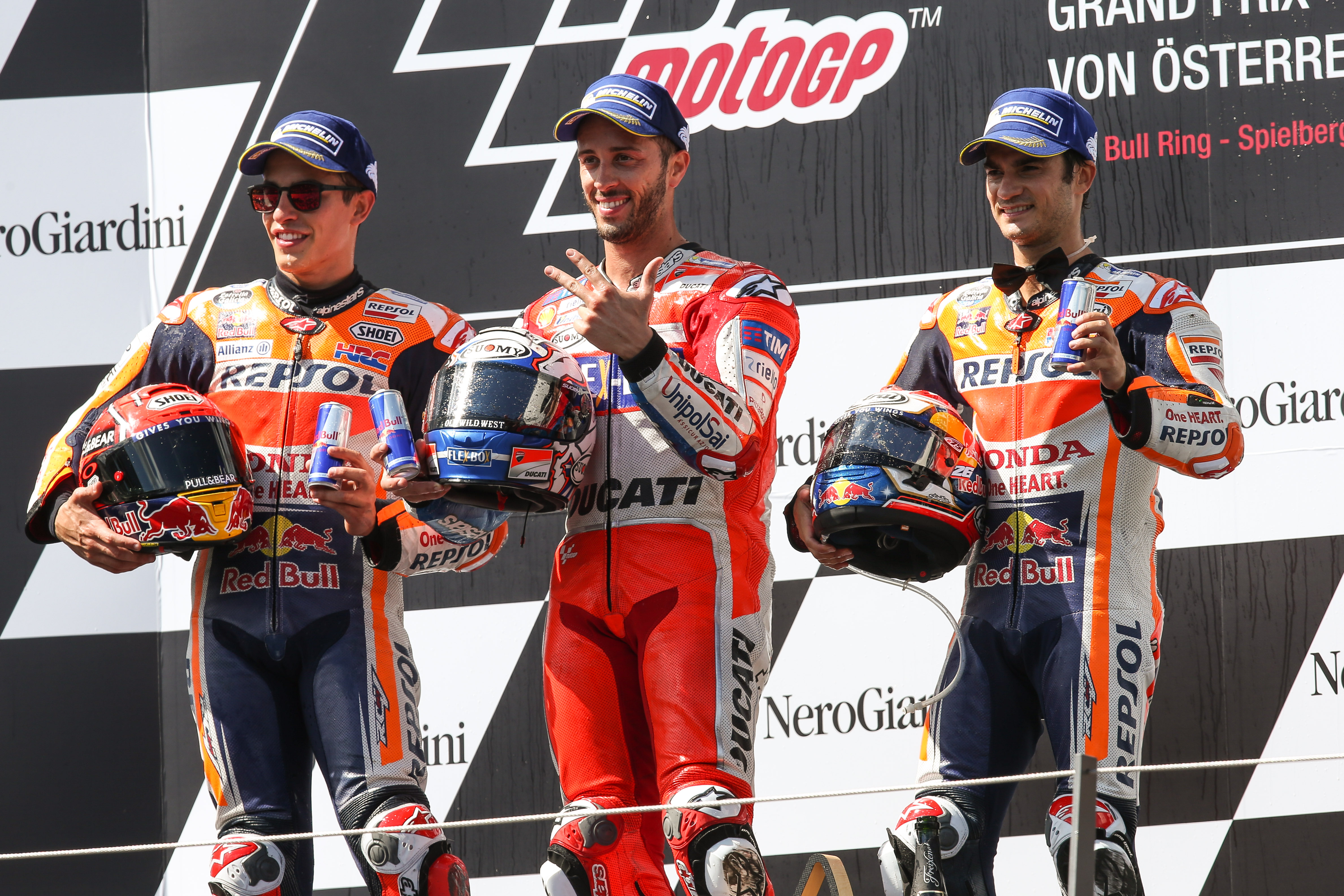 Marc Márquez, Andrea Dovizioso and Dani Pedrosa, standing on the podium and posing for the press after finishing in second, first and third place at the 2017 Austrian Grand Prix.